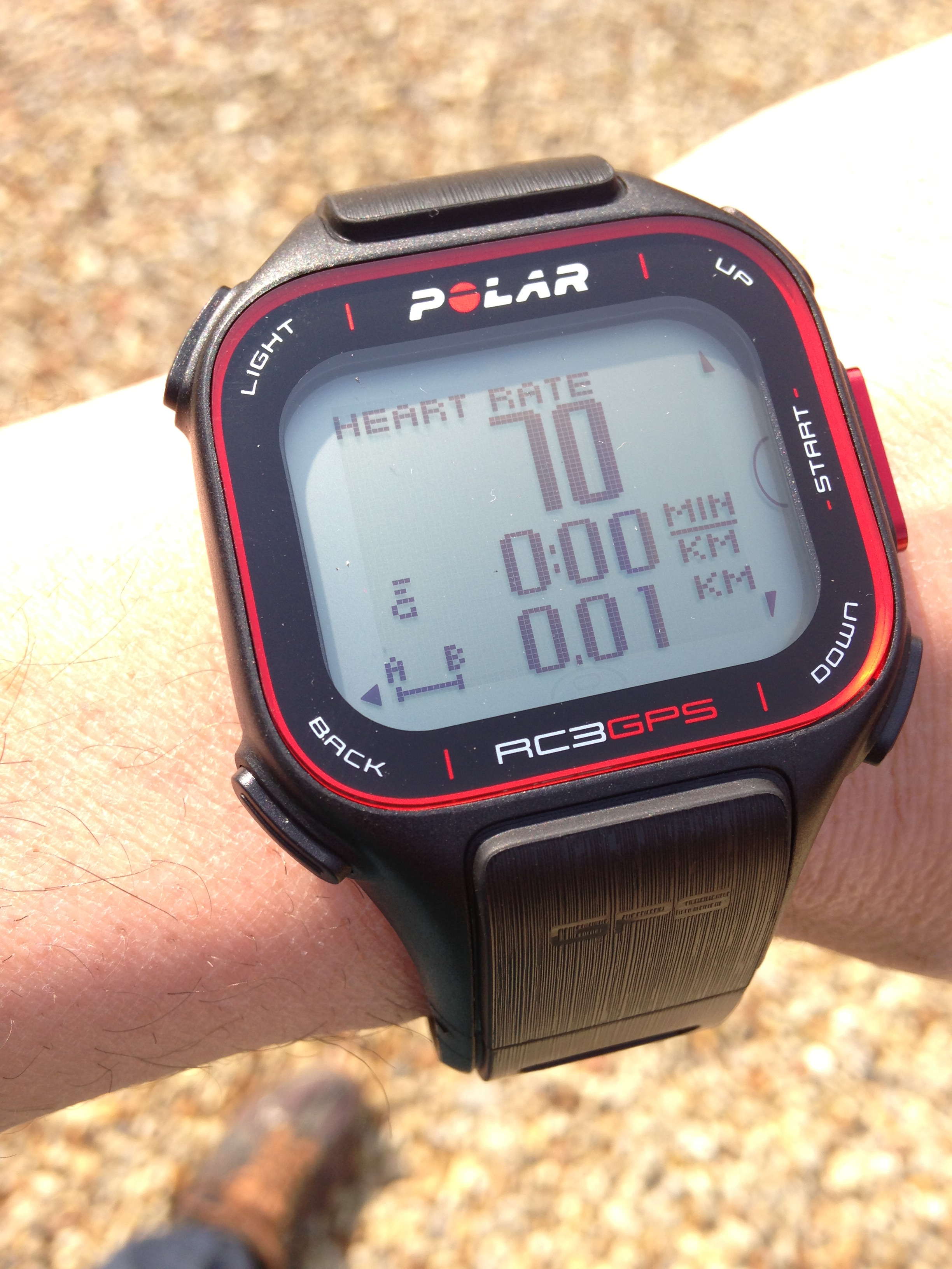 Garmin have been producing similar GPS heart rate monitors [Garmin Forerunner series] since 2003. This is the Polar RC3 GPS Heart Rate Monitor watch. The RC3 is Polar's FIRST fully integrated GPS and heart rate monitor watch. (GPS and Heart Rate in ONE unit)